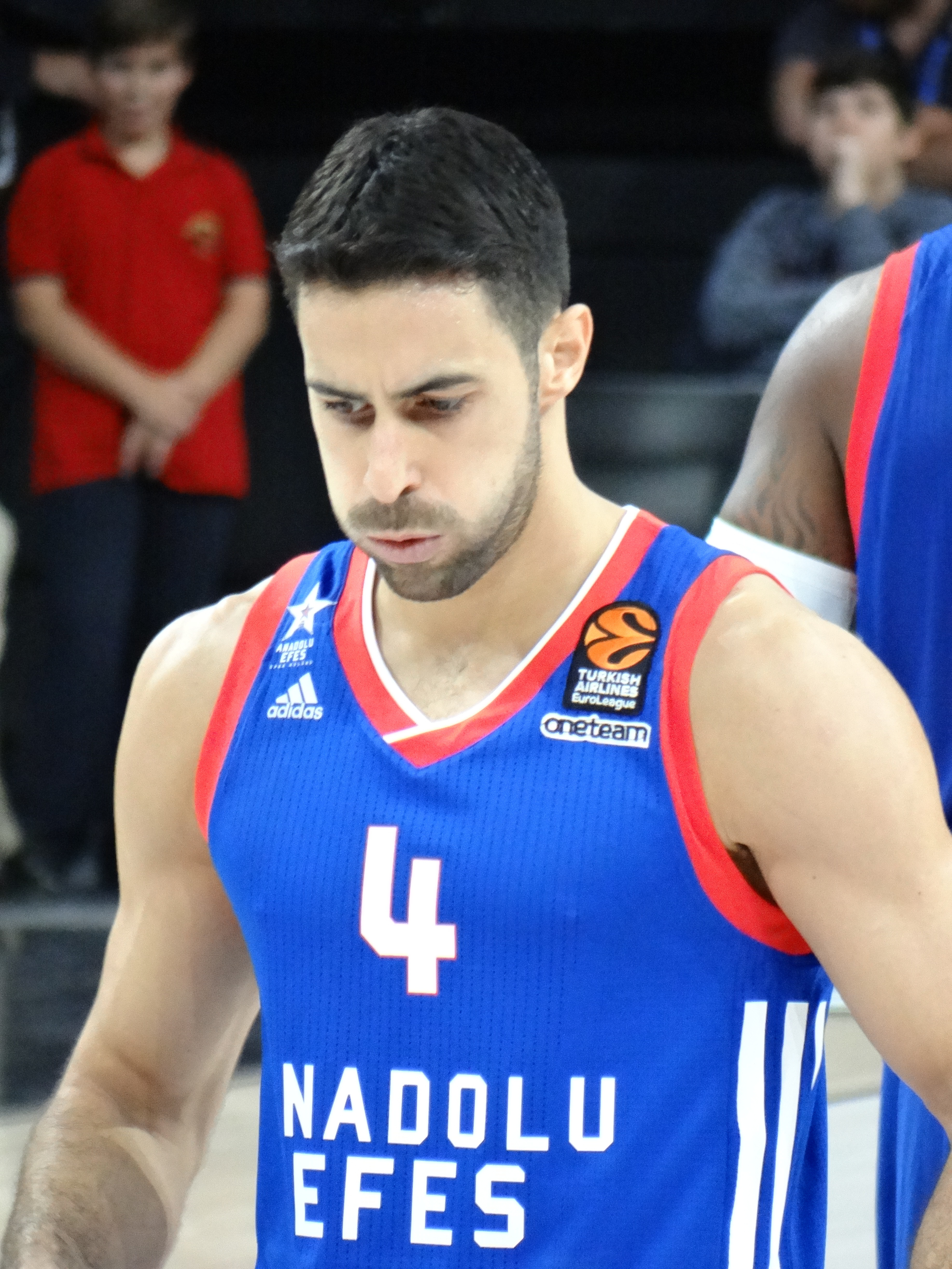 Doğuş Balbay 4 Anadolu Efes Euroleague 20171012